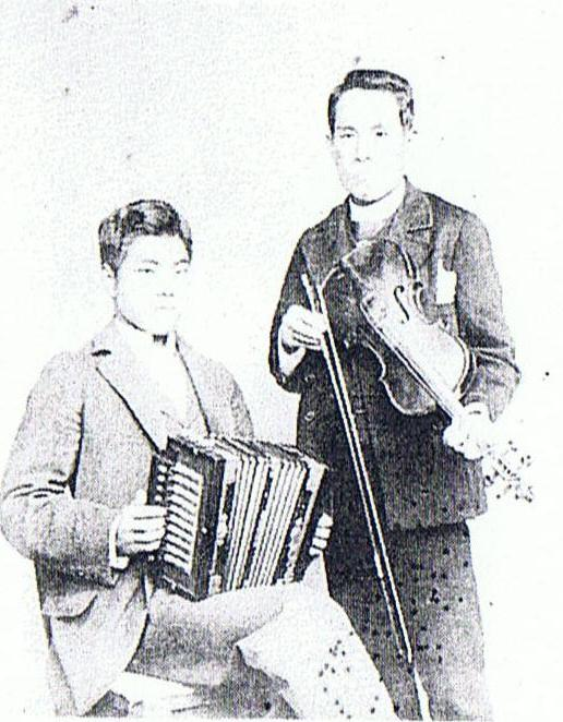 MITANI Tanekiti and Toranosuke